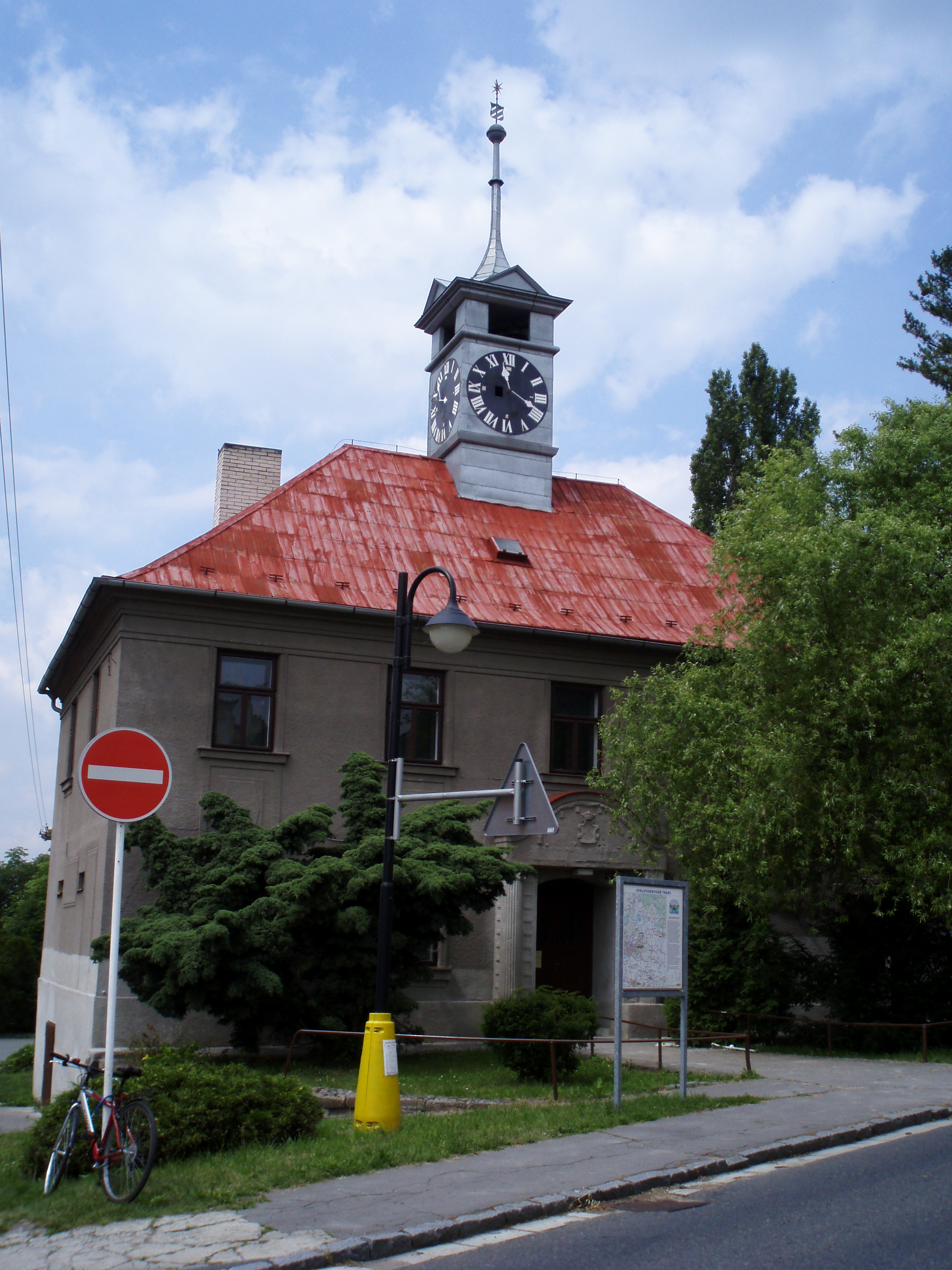 Old Town Hall in Sezemice, Pardubice District, Czech Republic